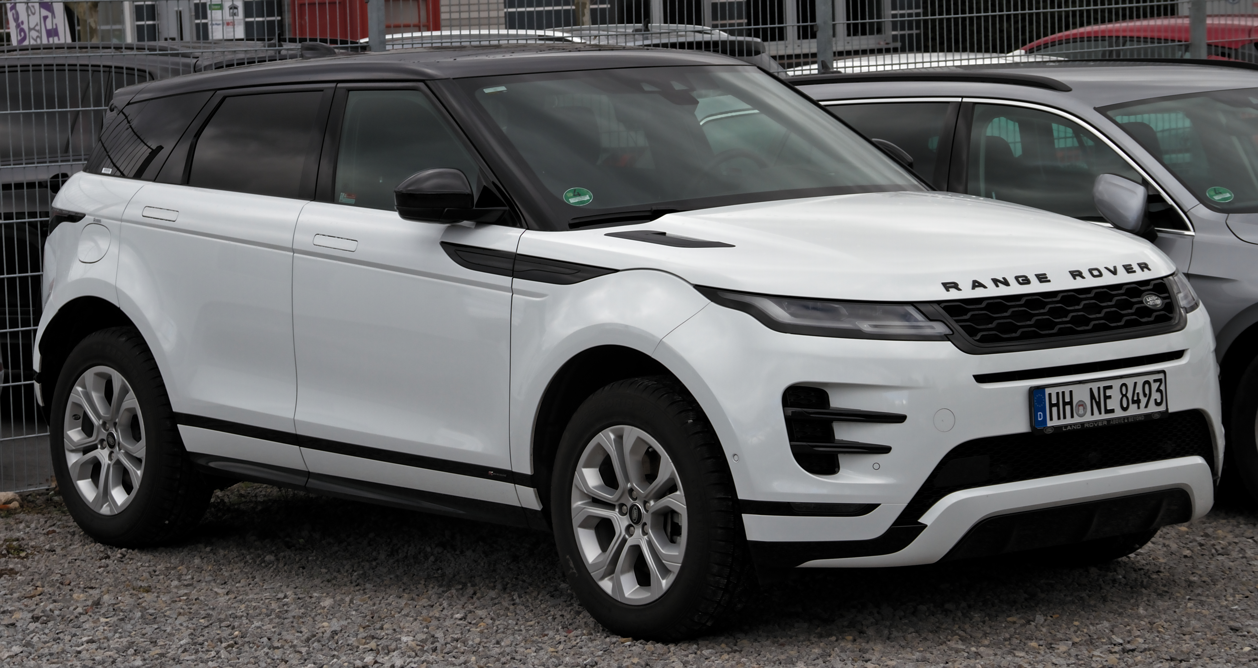 Range_Rover_Evoque_(L551) in Stuttgart-Vaihingen